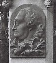 Duke Ferdinand von Braunschweig, Portrait on the Hueckelsmay Memorial, own foto